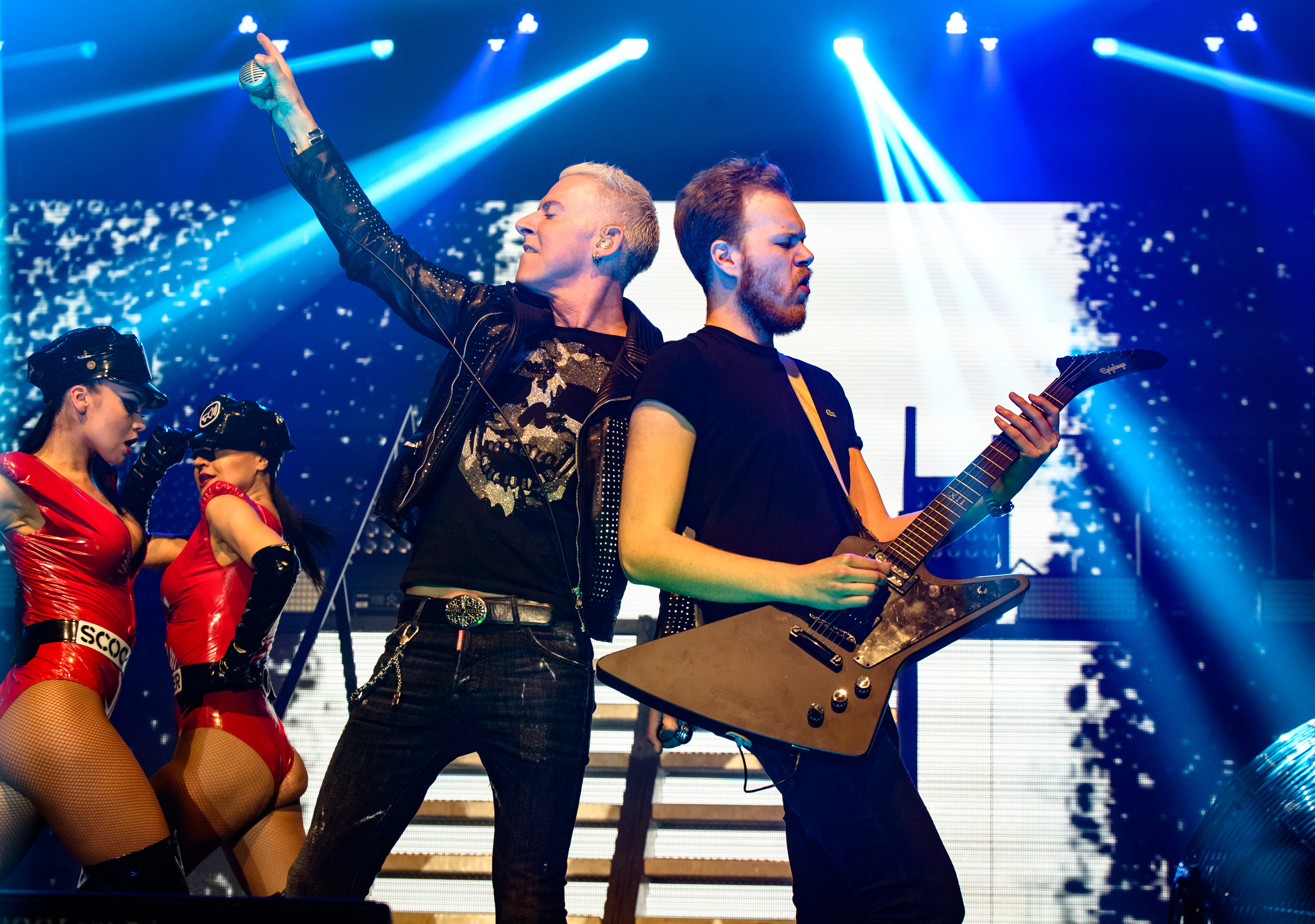 Scooter Live @ Munich 2016